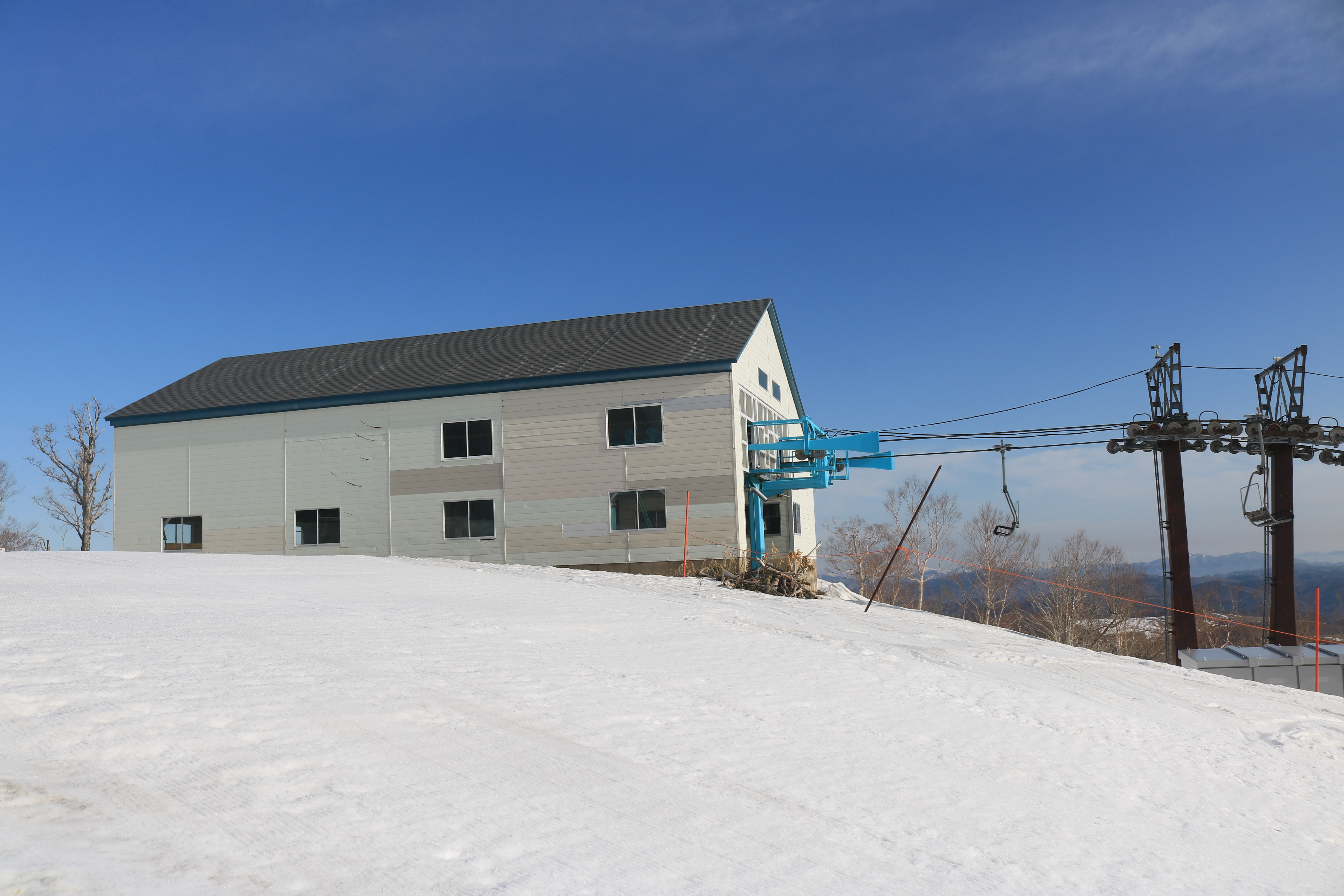 Meiho Snow Resort in Gujo, Gifu Prefecture, Japan.